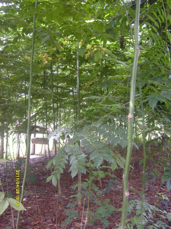 2 year old stand of Acrocarpus fraxinifolius at Riomweri Village in Keumbu, Kenya. This stand of trees has helped counter erosion problems in the immediate area. .